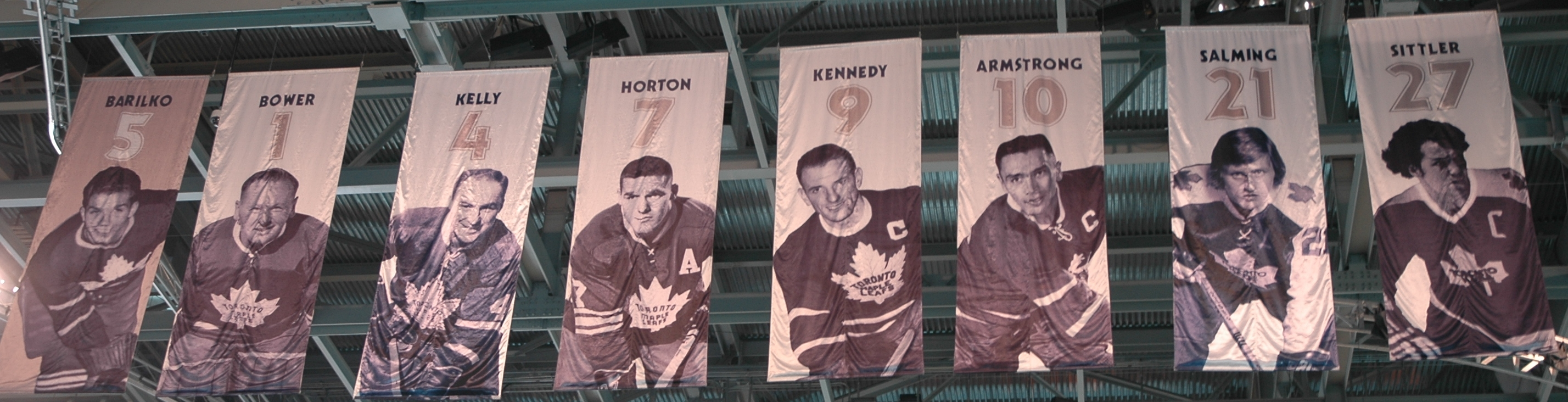 TToronto Maple Leafs Retiered and honored numbers banners in the Air Canada Center (Part2)